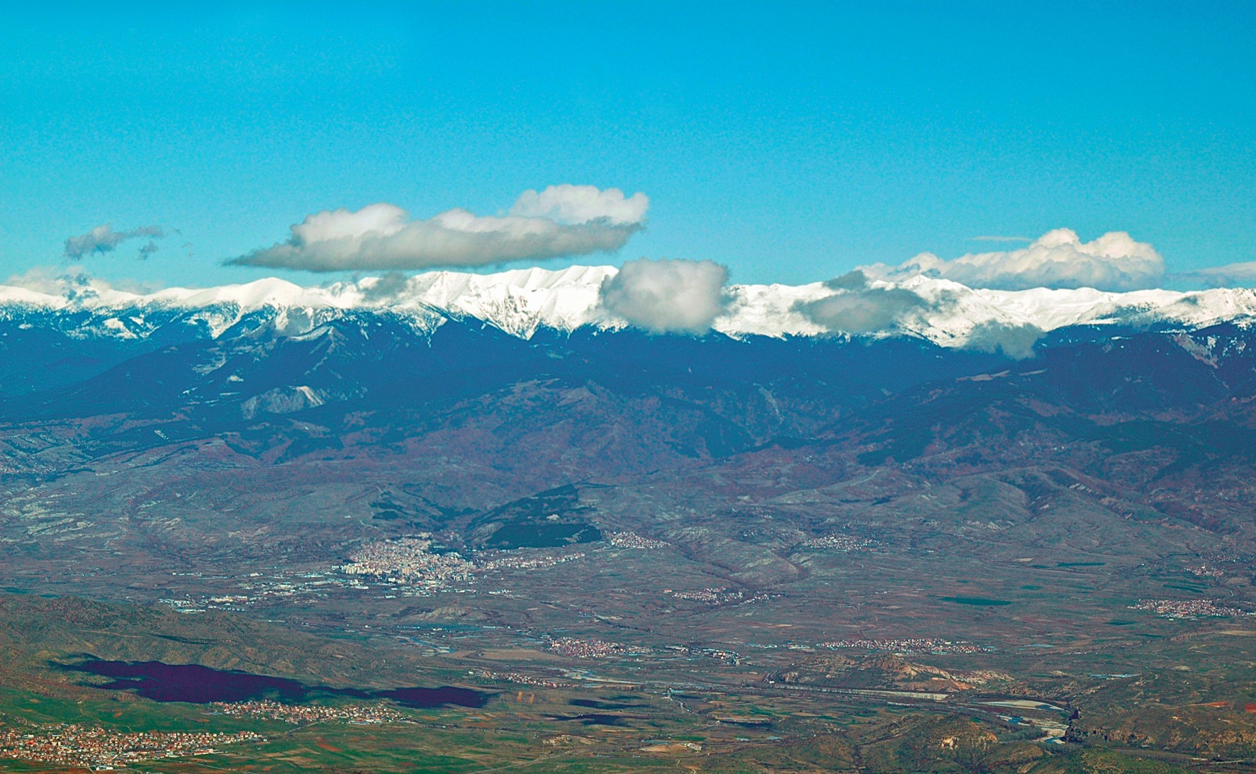 View from Belastitsa mountain /Petrich city/ to Sandanski city